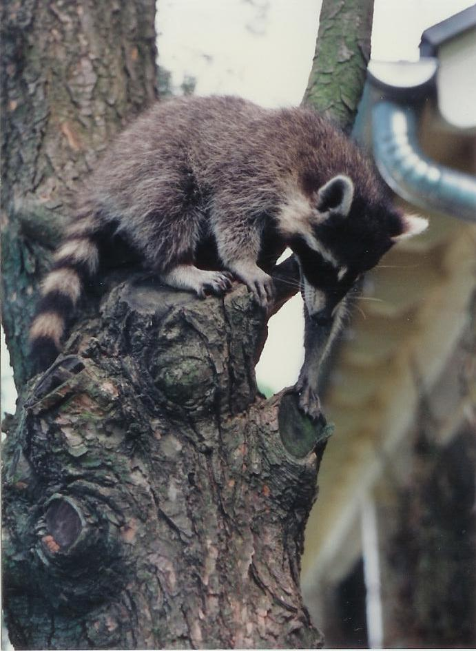 common raccoon from back yard